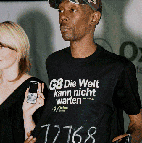 Maxi Jazz at Oxfam Germany's G8 campaign, 'Konzert auf dem weg nach Heiligendam' (Concert on the way to Heiligendam). You can read more about the concert at